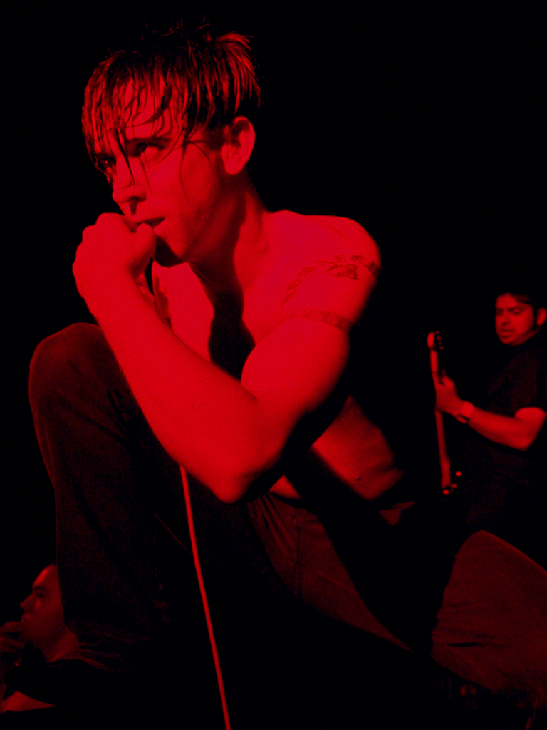 Benjamin Kowalewicz live in concert at Cardiff University Students' Union, August 8, 2006.